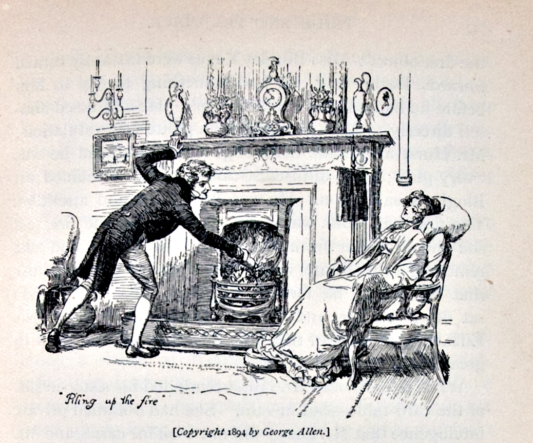 "Piling up the fire" - Bingley attending to the fire when Jane comes down from her sick room at Netherfield. Austen, Jane. Pride and Prejudice. London: George Allen, 1894.